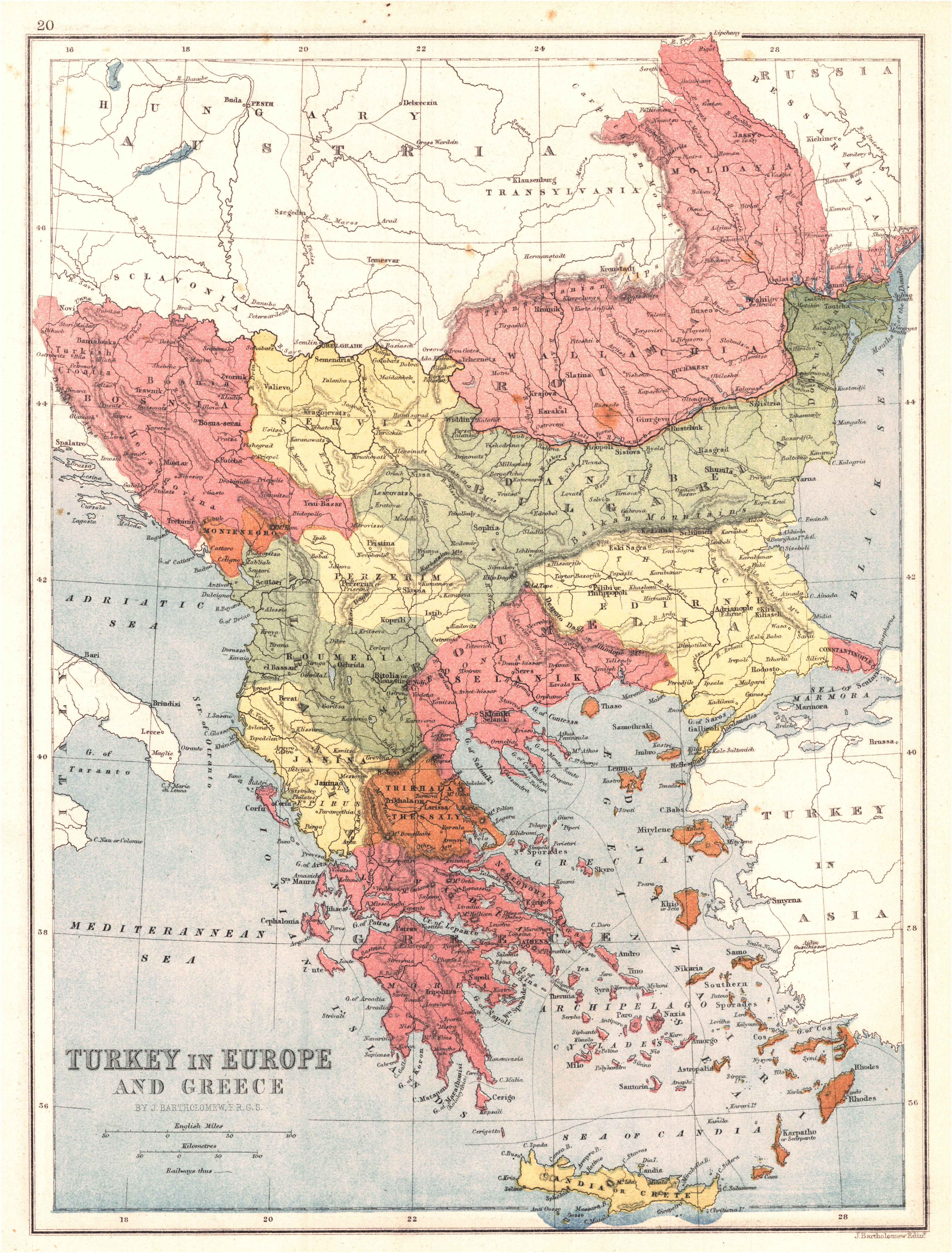 Turkey in Europe and Greece Publication Info: Edinburgh: William Collins, Sons and Company, 1870; from The Advanced Atlas Date: 1870 Scale: 1: 5,069,000